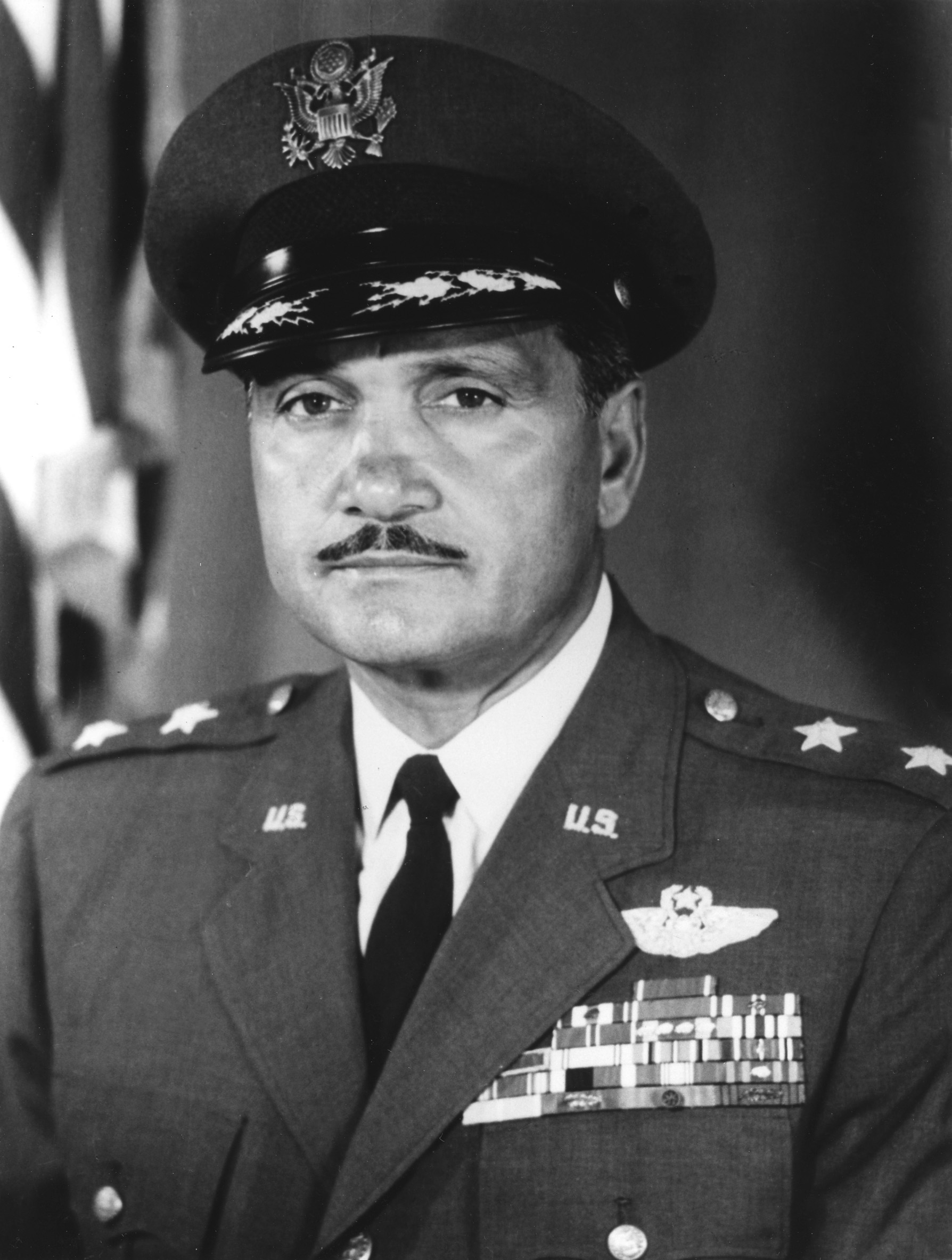 Michael J. Ingelido, USAF